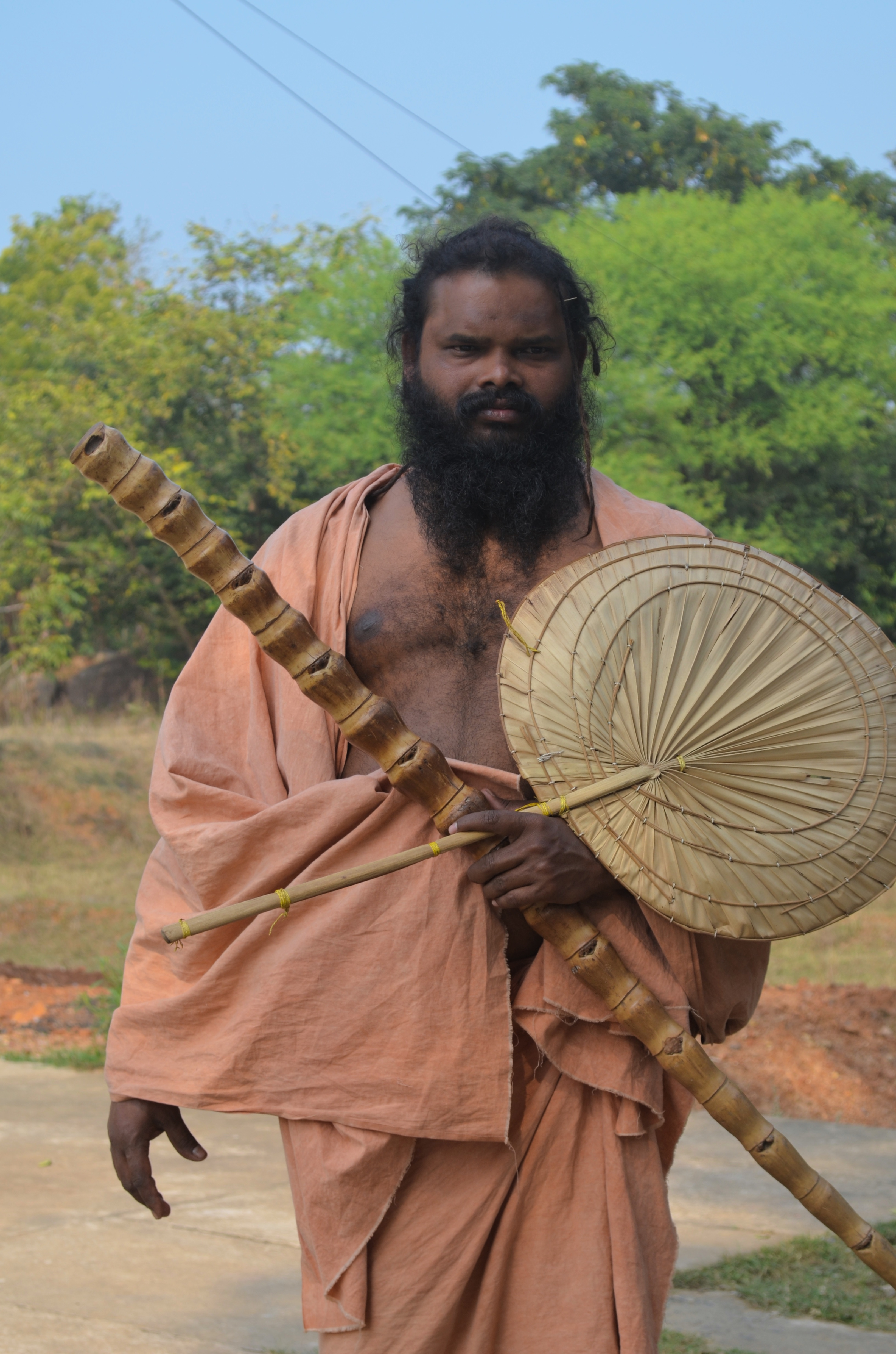 Wandering ascetic of the Mahima order, somewhere near Baneswaranasi in Odisha. He carries the typical 'barada badi' or palm leaf fan. ଓଡ଼ିଆ: ବାଣେଶ୍ୱରନାସୀ ନିକଟରେ ଜଣେ ମହିମା ସାଧୁ । ହାତରେ ମହିମା ସାଧୁଙ୍କ ପରିଚାୟକ ବରଡ଼ା ବାଡ଼ି ।